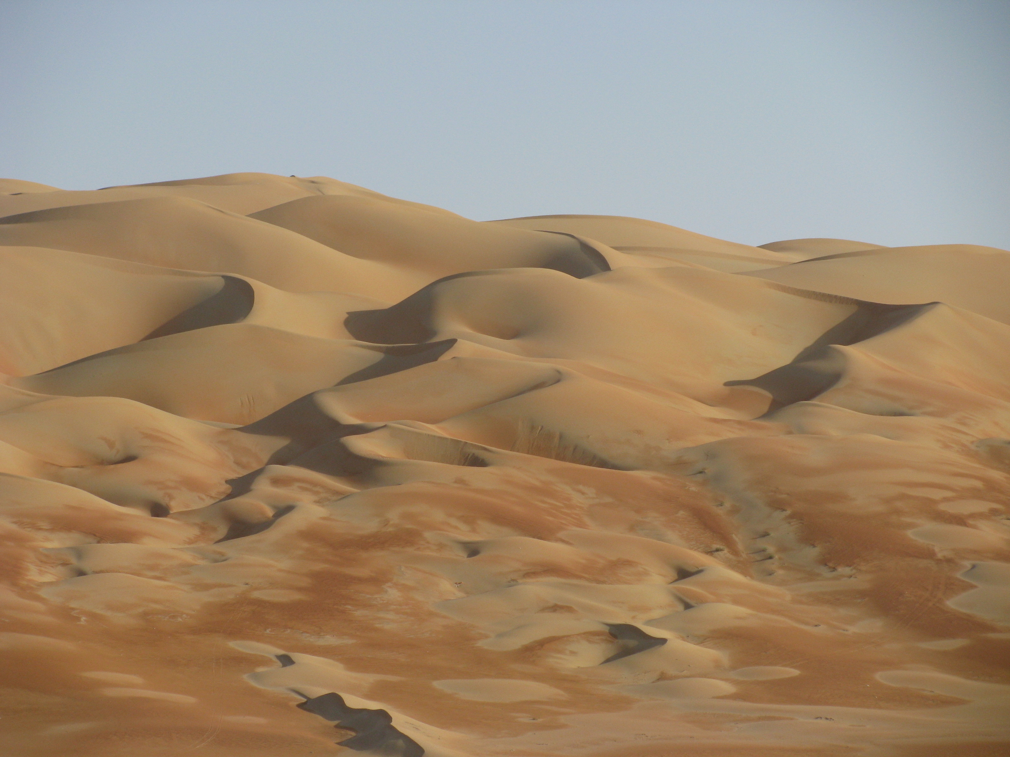 More colours and patterns